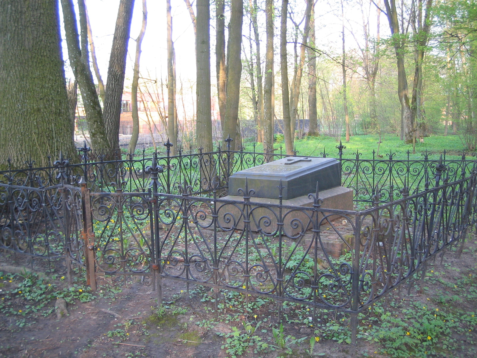 Freda cemetery: tomb of Oskar von Klemm, superintendent of Kaunas Fortress